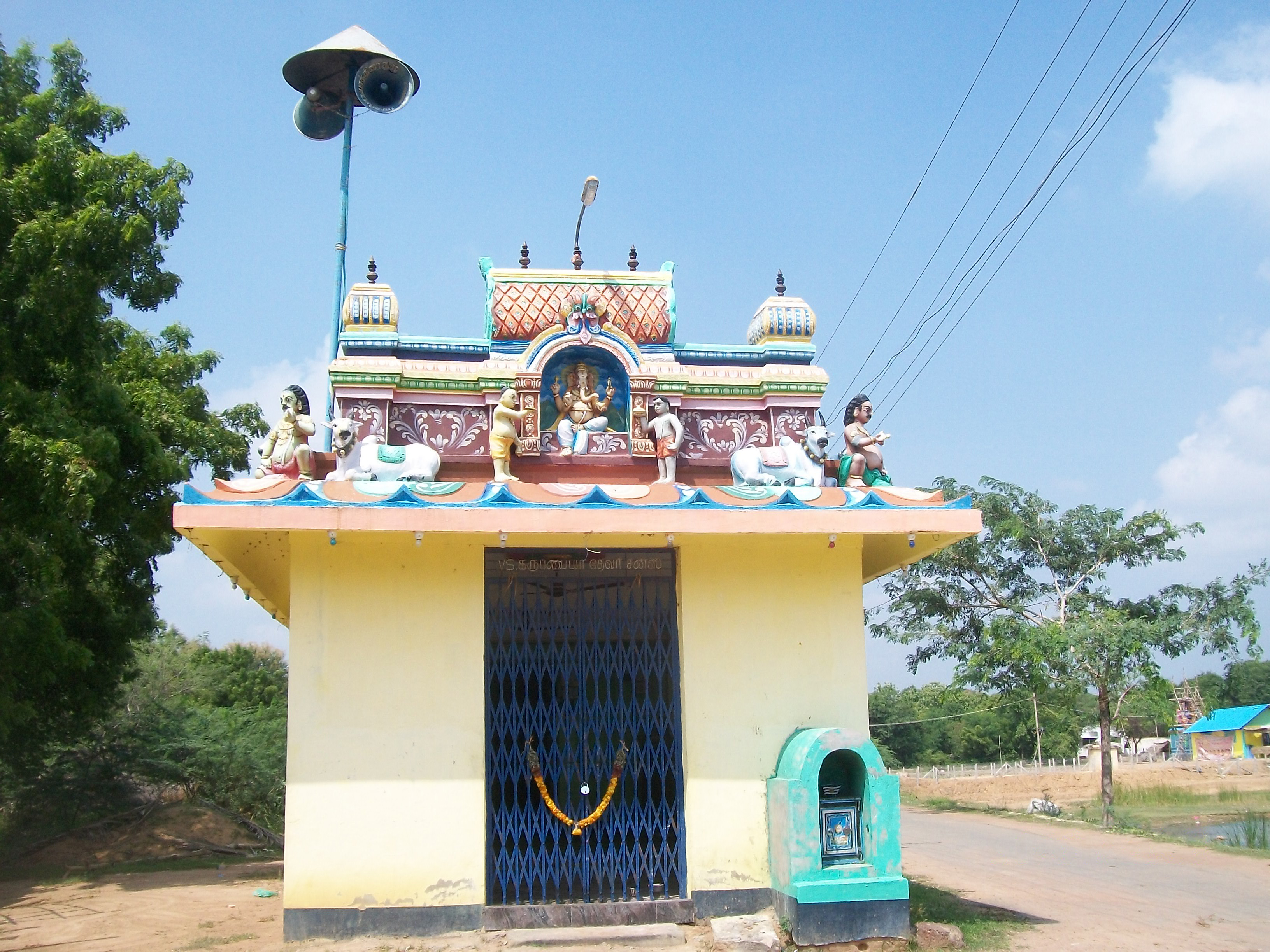 vinayaga